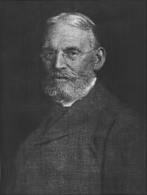 This picture of H. K. Porter is from the front cover of a church program for his funeral. The program had been folded, so I scanned it, and edited the photo to remove the fold lines...also tried to lighten it up a bit. Church program printed in 1921, so in public domain. Border removed - caption was: Henry Kirke Porter 1840 - 1921